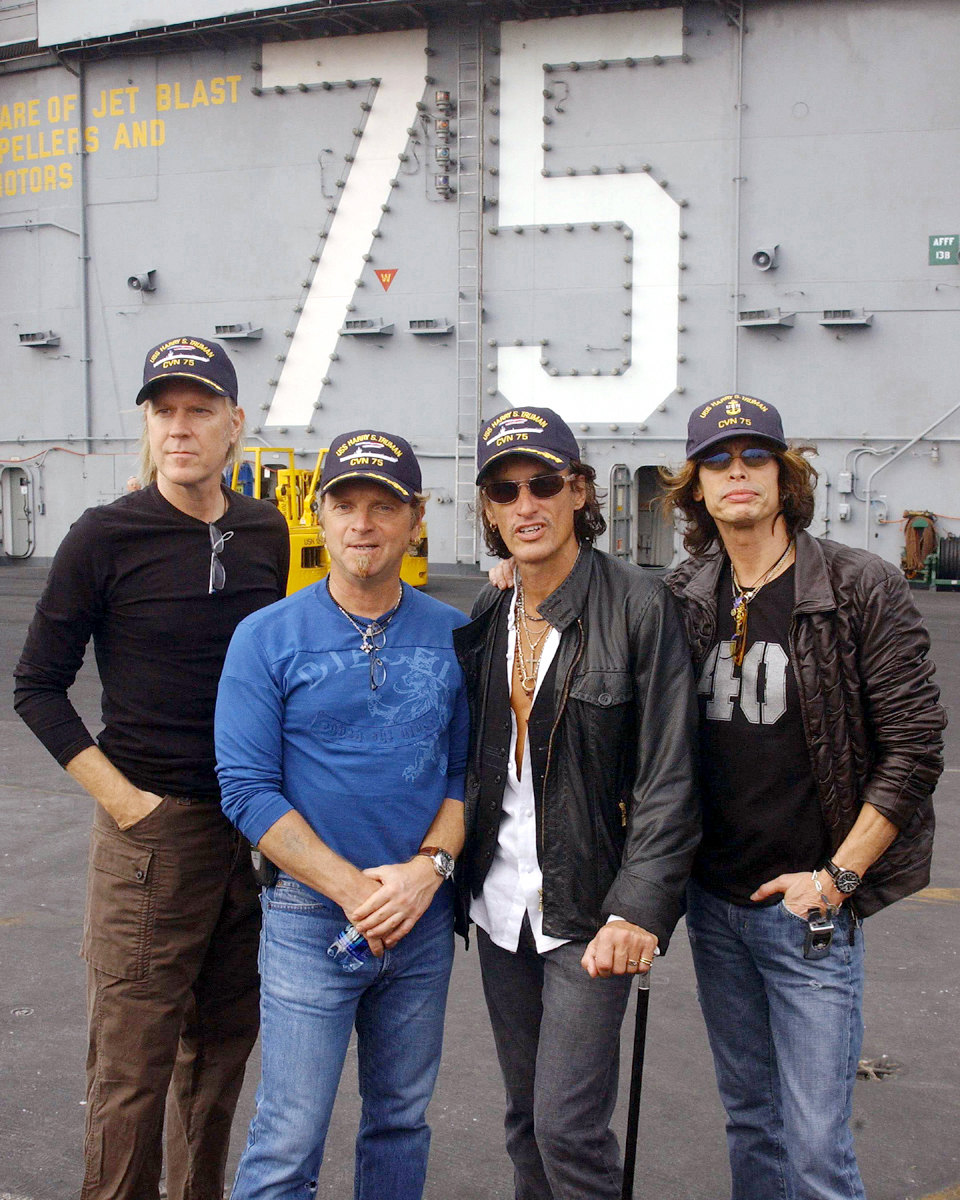 Norfolk, Va., aboard USS Harry S. Truman (CVN 75) Oct. 9, 2002 -- Internationally renowned rock band "Aerosmith" (from left: Tom Hamilton, Joey Kramer, Joe Perry, and Steven Tyler) visited with Truman Sailors and toured the aircraft carrier pier side at Norfolk Naval Station. The band had returned to perform in the area, having cancelled their original performance scheduled for September 11, 2001. U.S. Navy photo by Photographer's Mate 3rd Class Christopher B. Stoltz. (RELEASED)